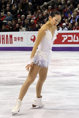 Mao Asada during her long program at the 2013 World Championships.